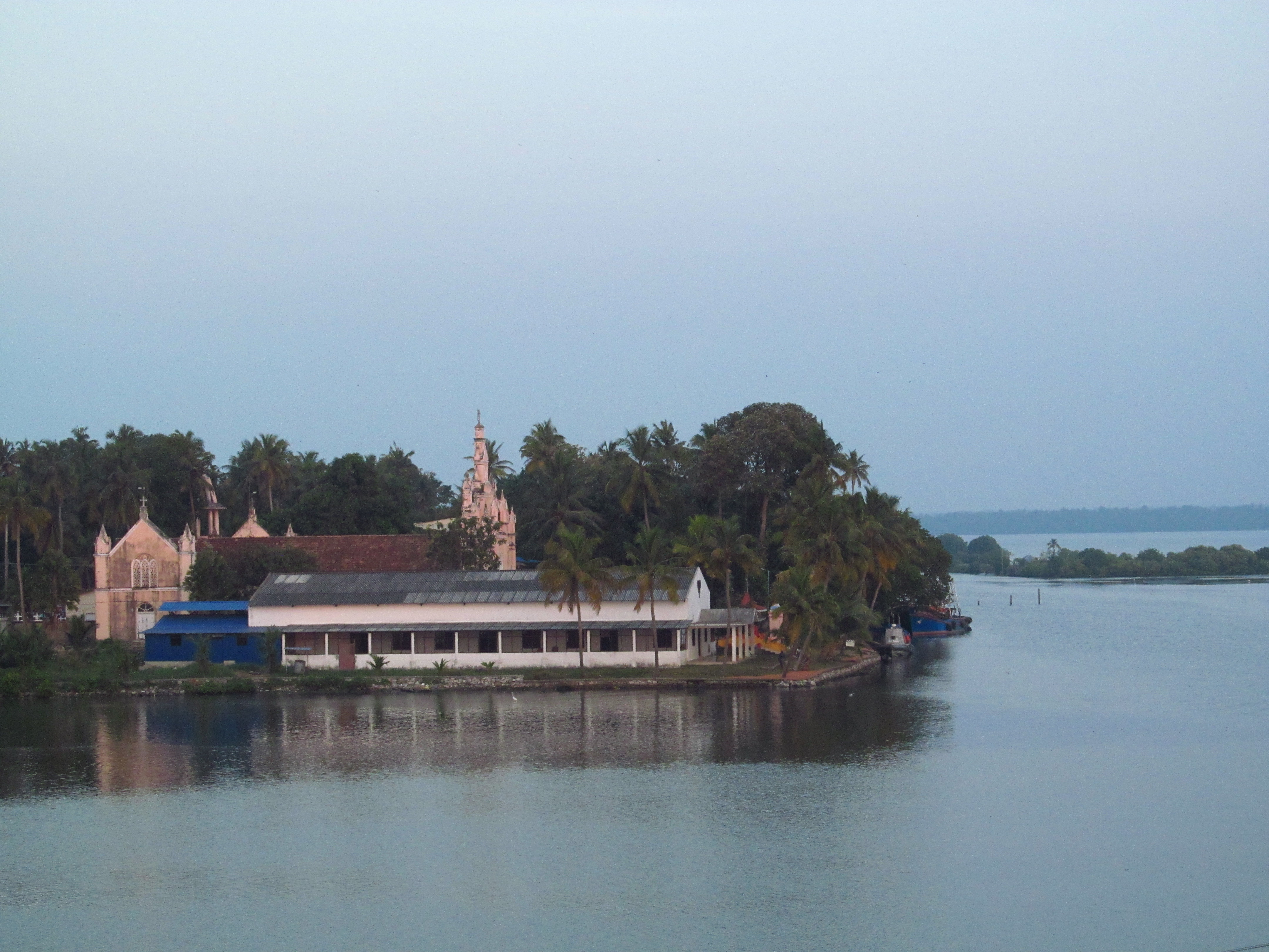 St.Joseph Church located southern most part of Chavara Thekkumbhagom Village. This shot from Pallikkodi Dalavapuram Bridge